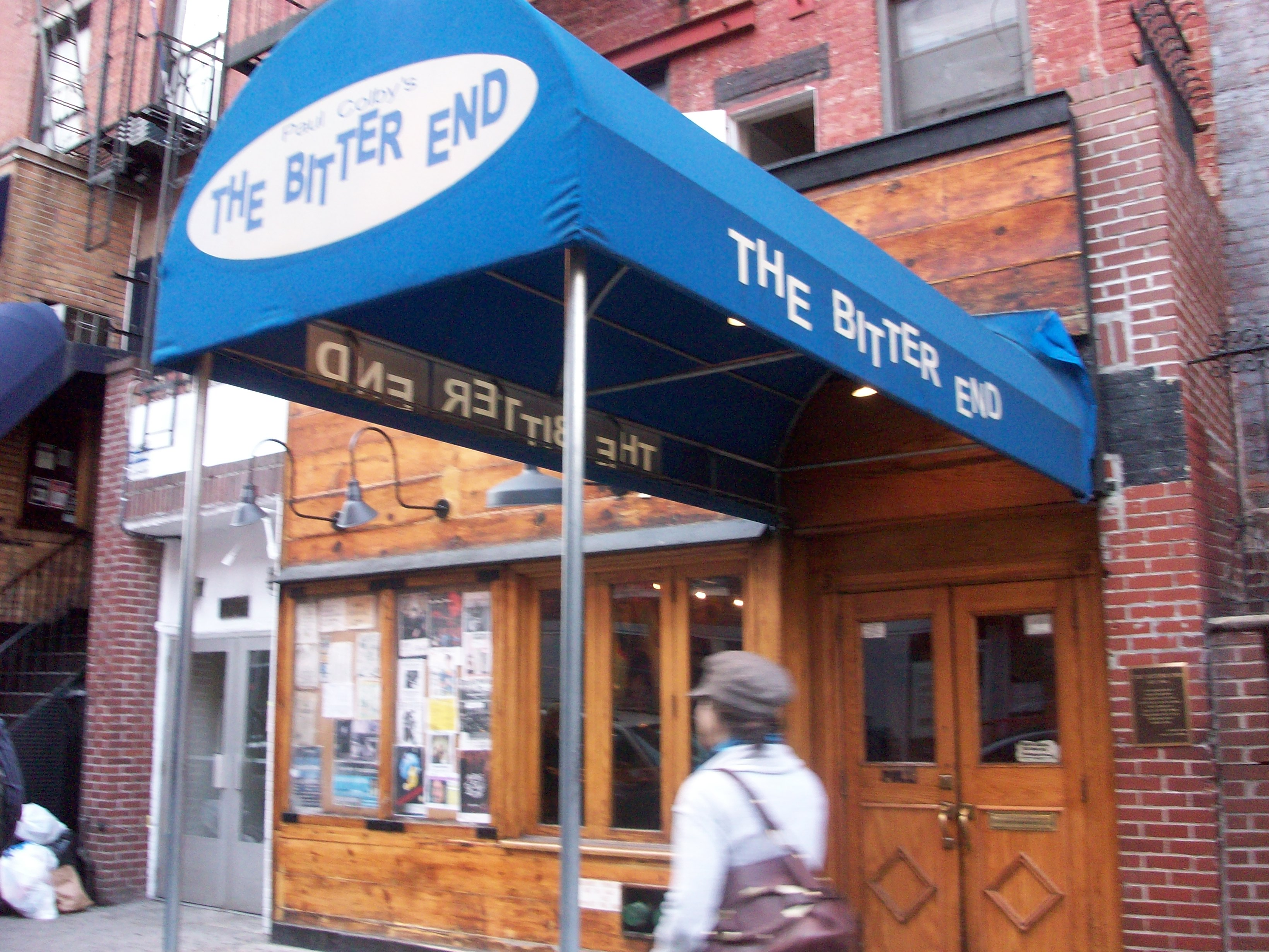 This photo is of Wikis Take Manhattan goal code F11, The Bitter End.